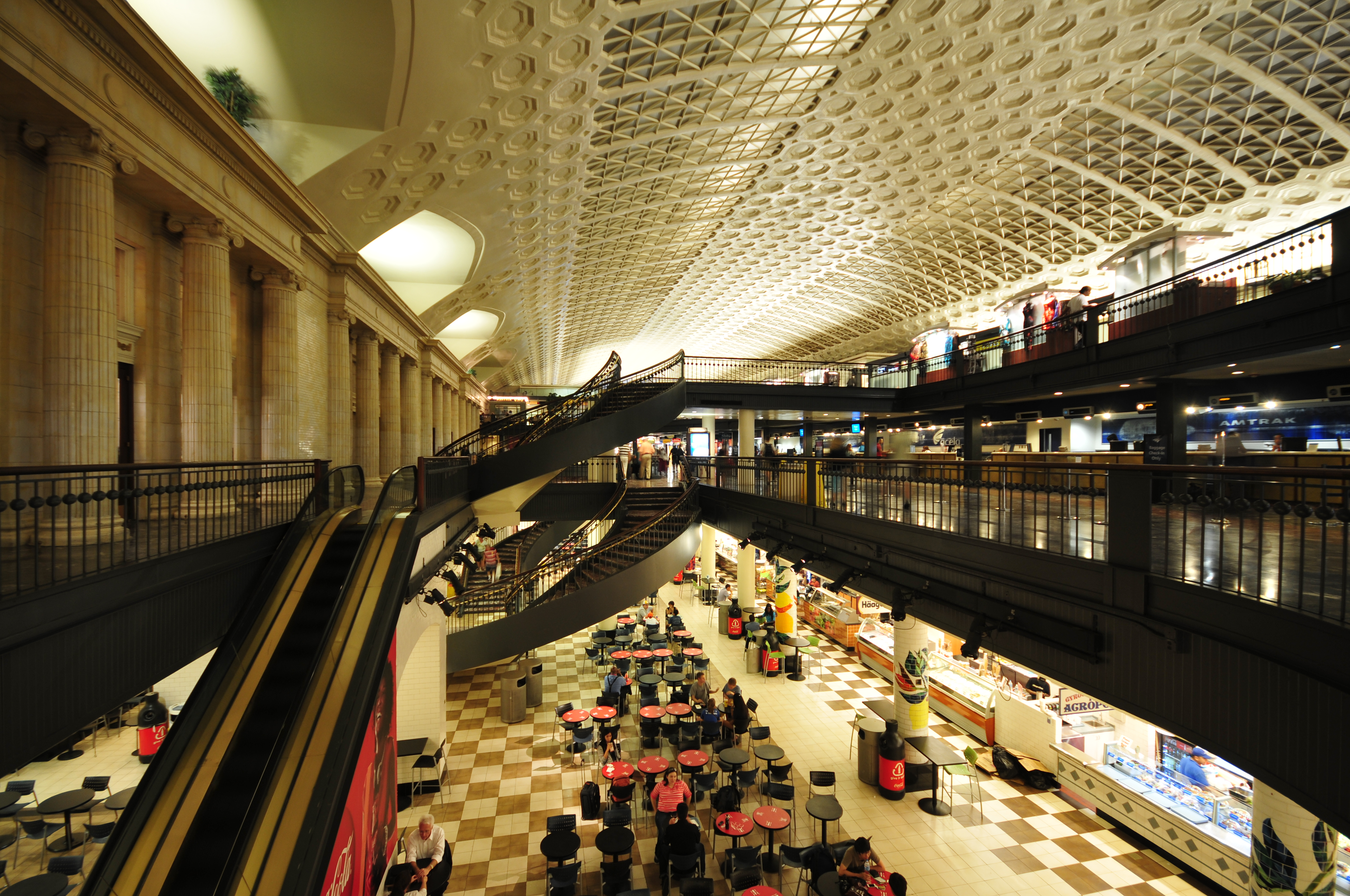 Washington D.C. The making of this work was supported by Wikimedia Austria. For other files made with the support of Wikimedia Austria, please see the category Supported by Wikimedia Österreich.